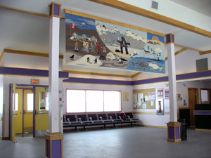 by Technicalglitch